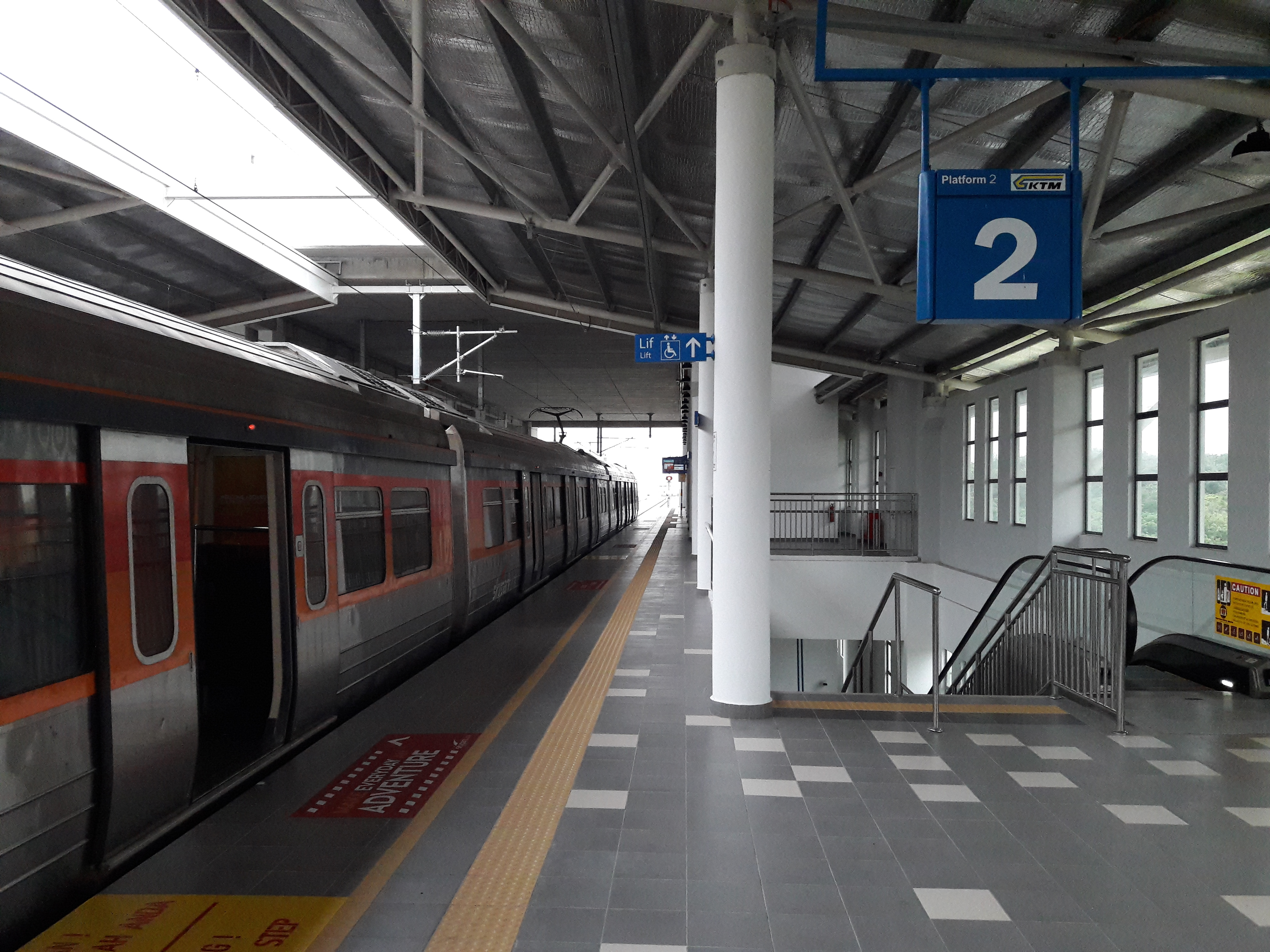 Platform 2, KTM Terminal Skypark, Selangor, Malaysia